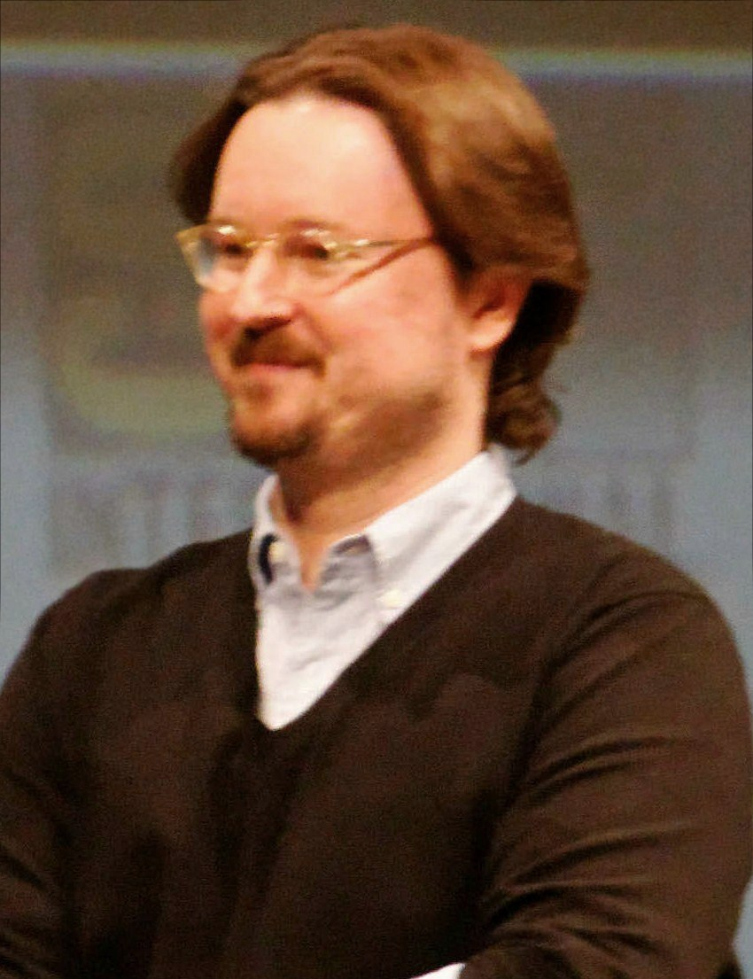 Matt Reeves at 2010 Comic-Con International